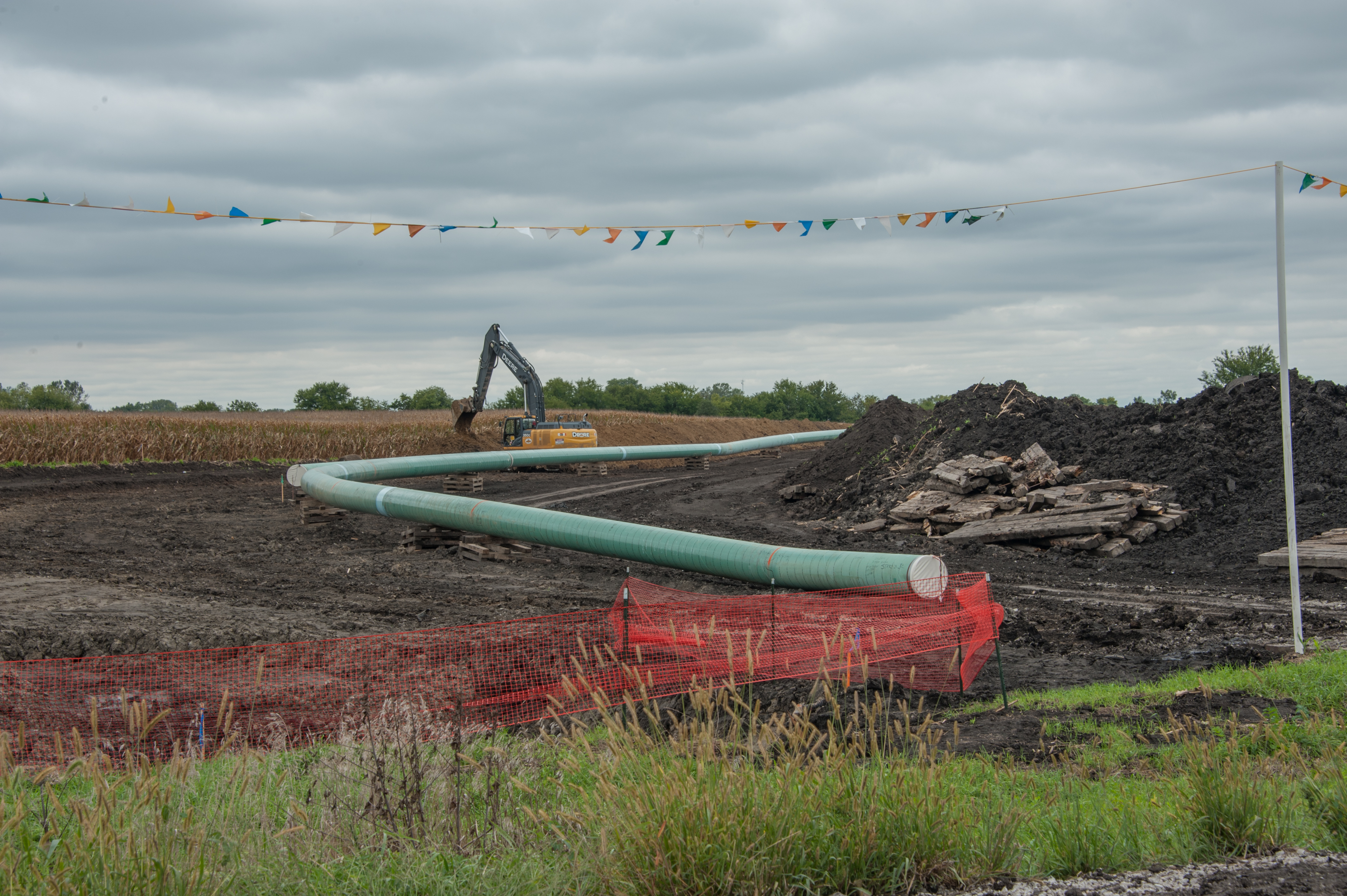 The controversial DAPL progressing across Southern Story and Northern Polk Counties in Central Iowa.